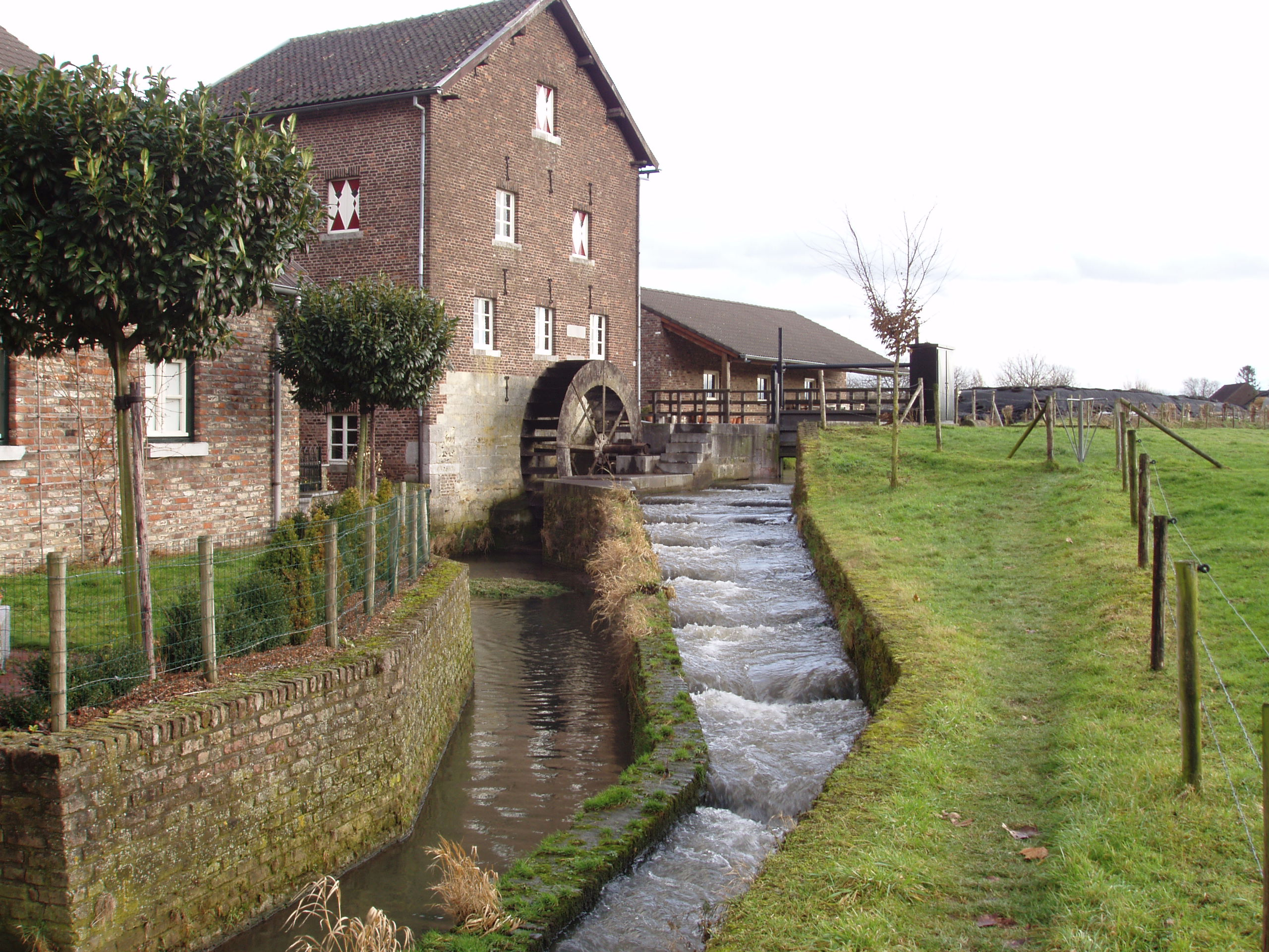 Graanmolen van Eijsden, Eijsden, Watermill Limburg Netherlands